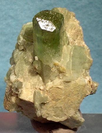 Diopside Locality: De Kalb, De Kalb Township, St Lawrence County, New York, USA (Locality at ) Size: 4.2 x 3.0 x 3.0 cm. A gemmy and lustrous, sharply terminated, 2.0 cm, green diopside crystal set in matrix from De Kalb, New York. Ex. Lippman, Morris Museum and George Elling Collections.